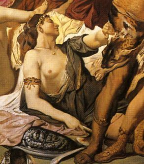 Detail from Anselm Feuerbach's Amazon battle.